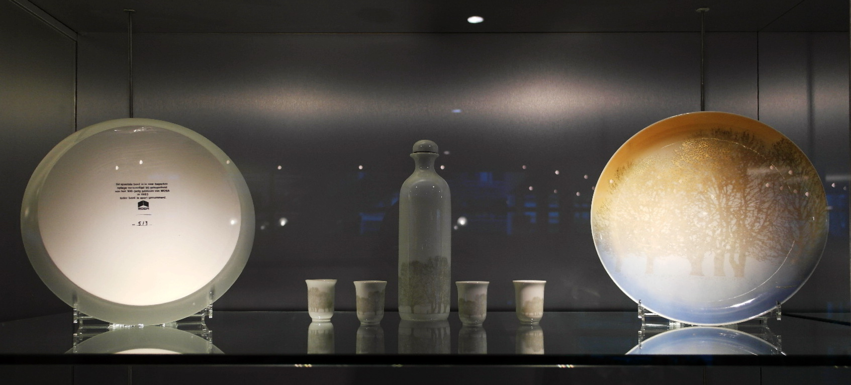 Ceramic plates and other objects, produced by Mosa potteries in Maastricht in 1983 for the company's 100th birthday, Collection Henk van Buren, now in Centre Ceramique, Maastricht, the Netherlands.